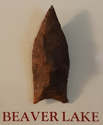 Photo of North American Paleoindian period Beaver Lake projectile point. Point was collected by Julian Alvin Hendrix and donated to the Matheson History Museum.